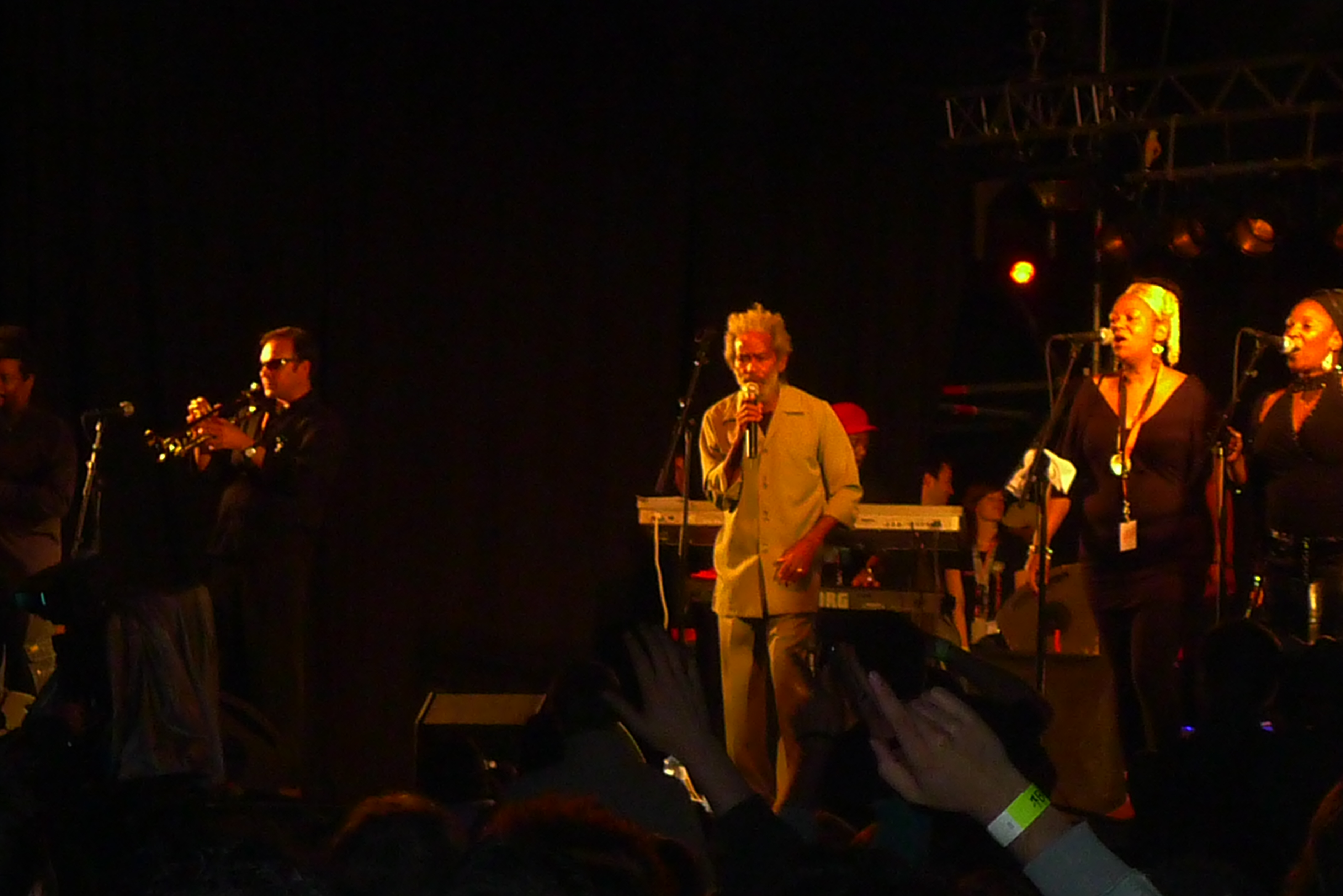 Max Romeo at Balelec festival 2009, Lausanne